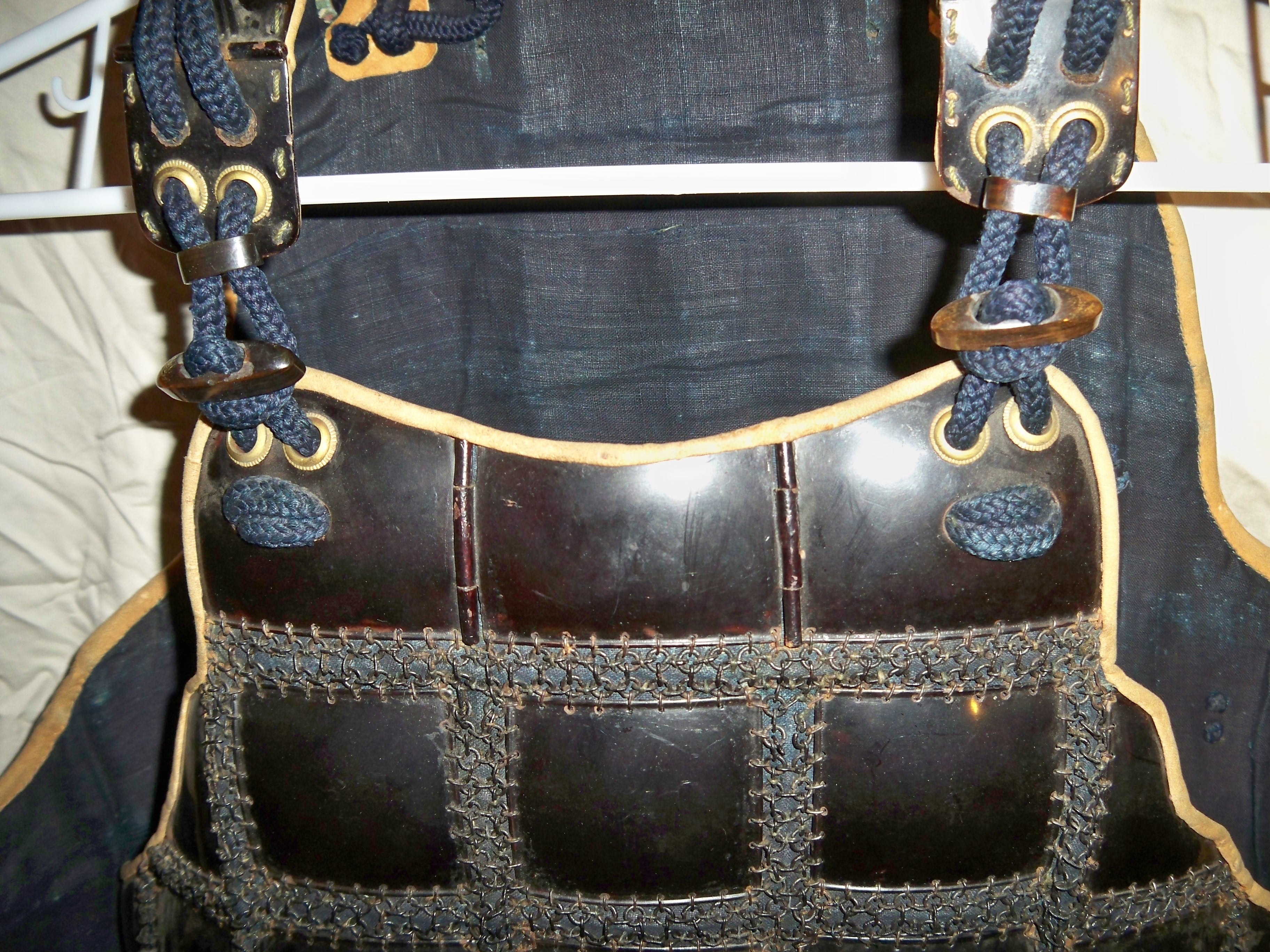 Close up picture of Edo period karuta armor plates.